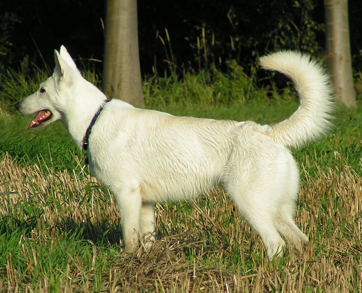 White Swiss Shepherd/Berger Blanc Suisse